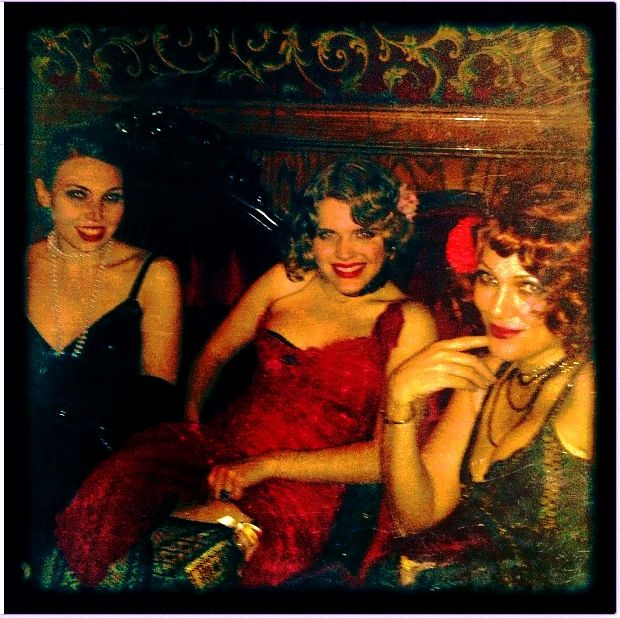 At Cynthia Von Buhler's Speakeasy Dollhouse